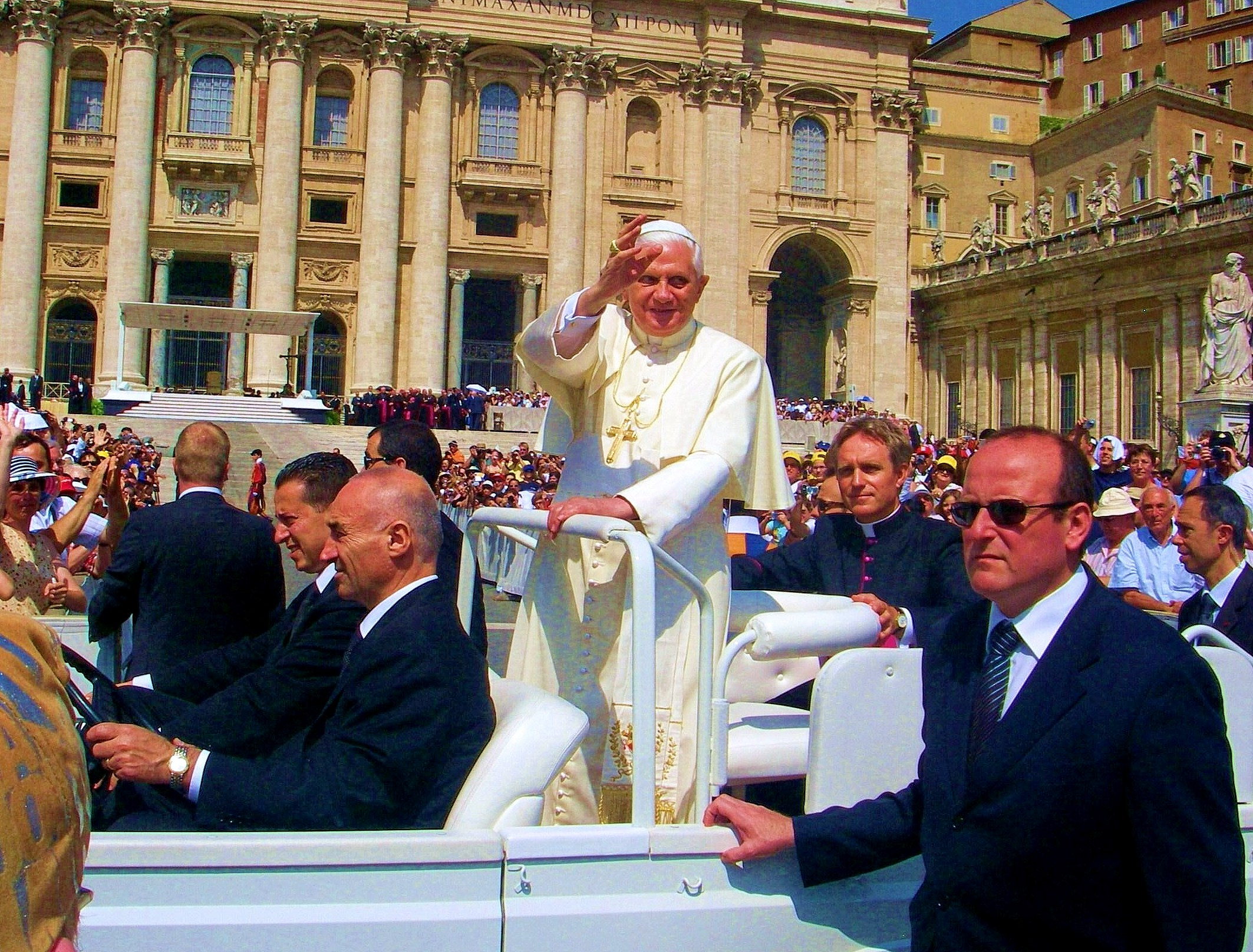 Pope Benedict XVI in St. Peter's Square, Rome (2007)